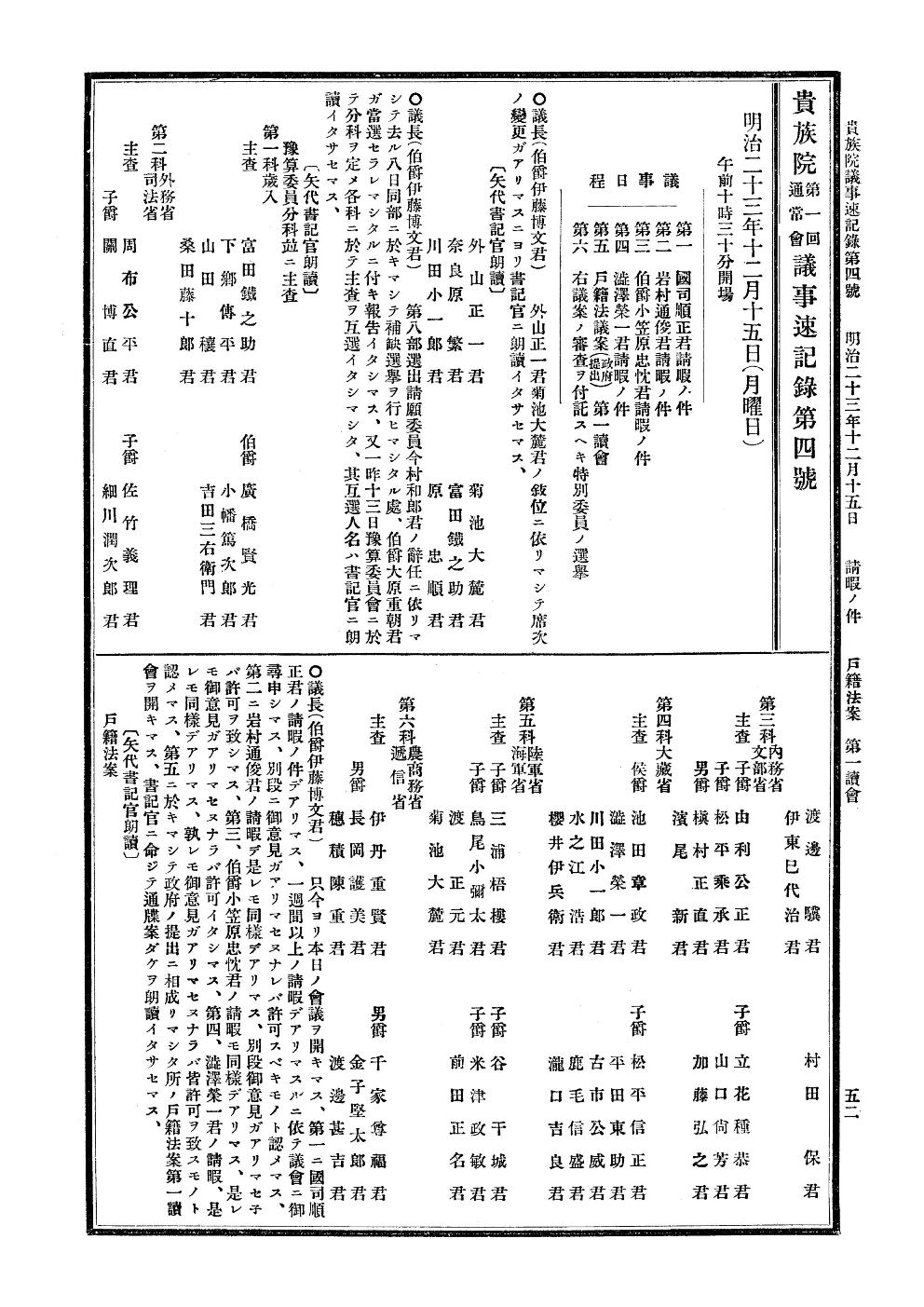 The first Imperial Japan House of Lords plenary session munites No.4, 1890, page 1 which displays the name of Eiichi Shibusawa, Finance bureaucrat.